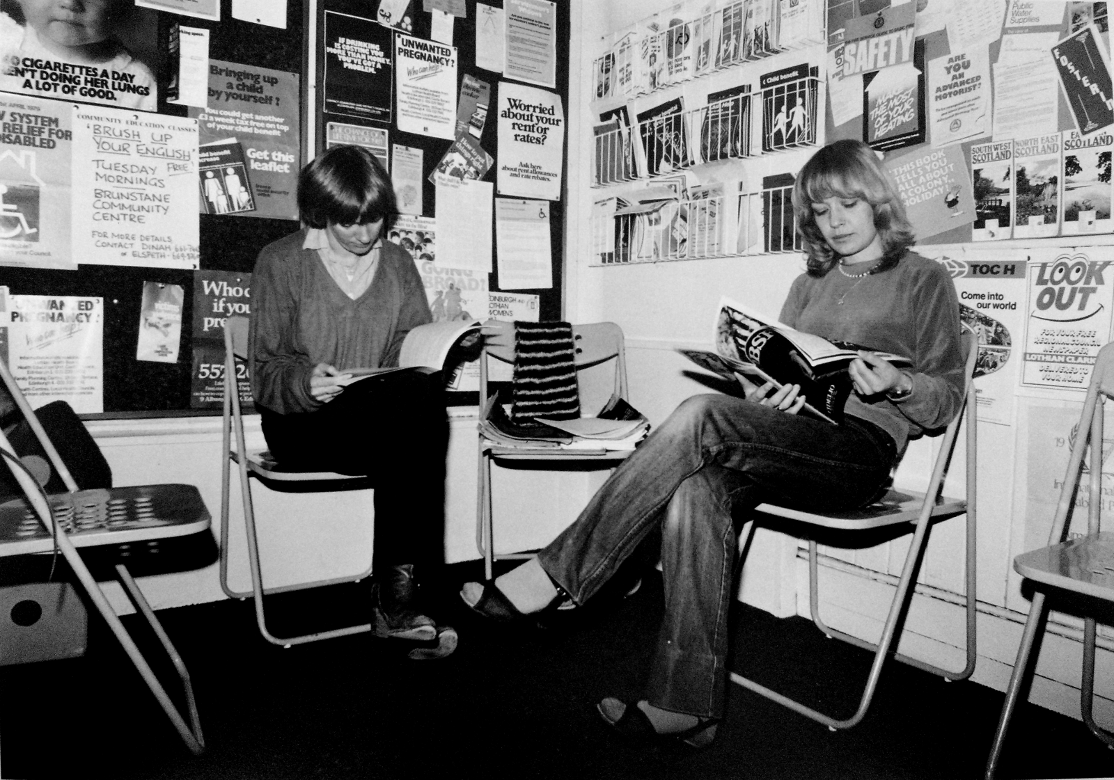 a black and white image taken in 1979 from within the Portobello citizens advice bureau in 1939, showing two clients waiting to be seen by an adviser